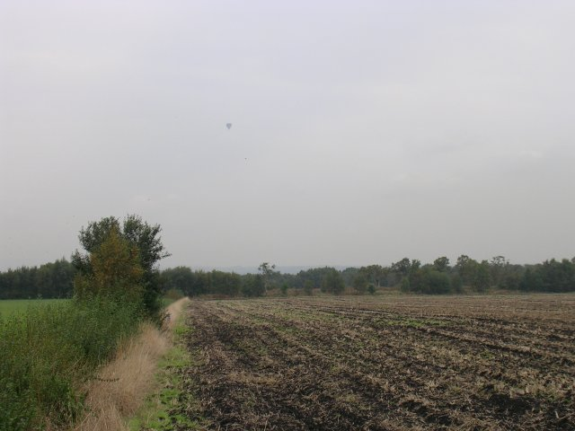 Astley Moss. Looking west across fields on Astley Moss. Typical scenery for the squares in this area to the west of Manchester. This square contains fields like this, small areas of woodland and the Liverpool to Manchester Railway. A hot air balloon can be seen drifting over the area.